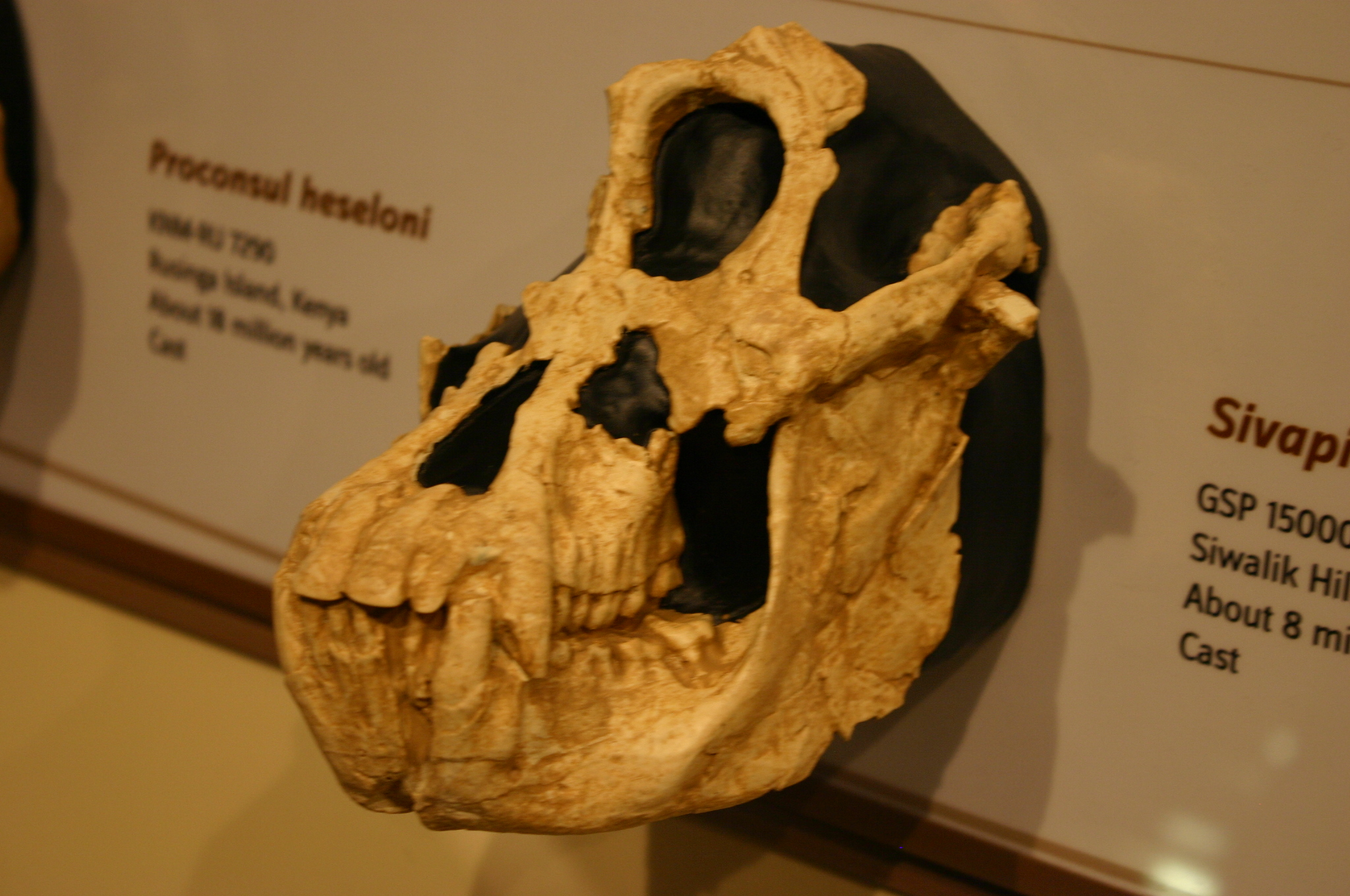 Taken at the David H. Koch Hall of Human Origins at the Smithsonian Natural History Museum.